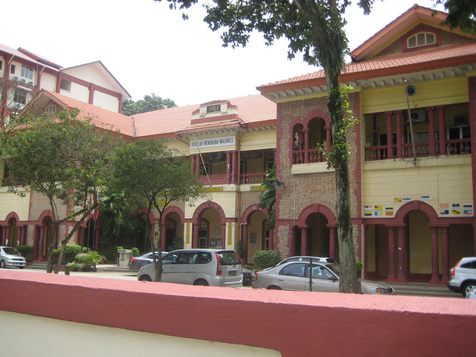 School fronts